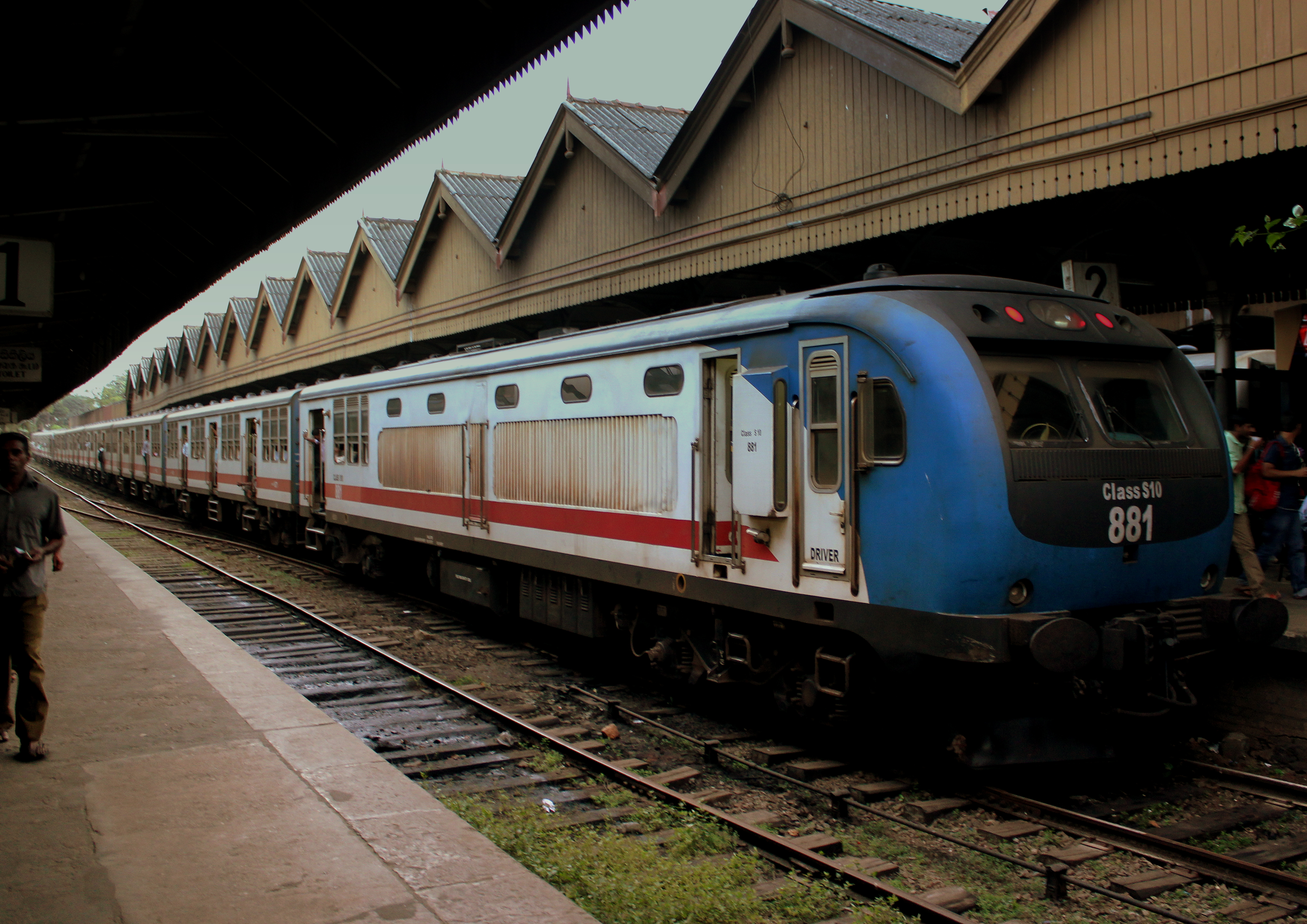 SRI LANKA RAILWAYS CLASS S10 AT COLOMBO FORT STATION SRI LANKA JAN 2013